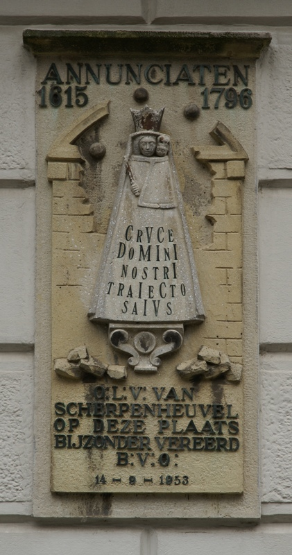 Holy Mary of Scherpenheuvel - Wycker Grachtstraat, Maastricht, The Netherlands. By an unknown artist, 1953.